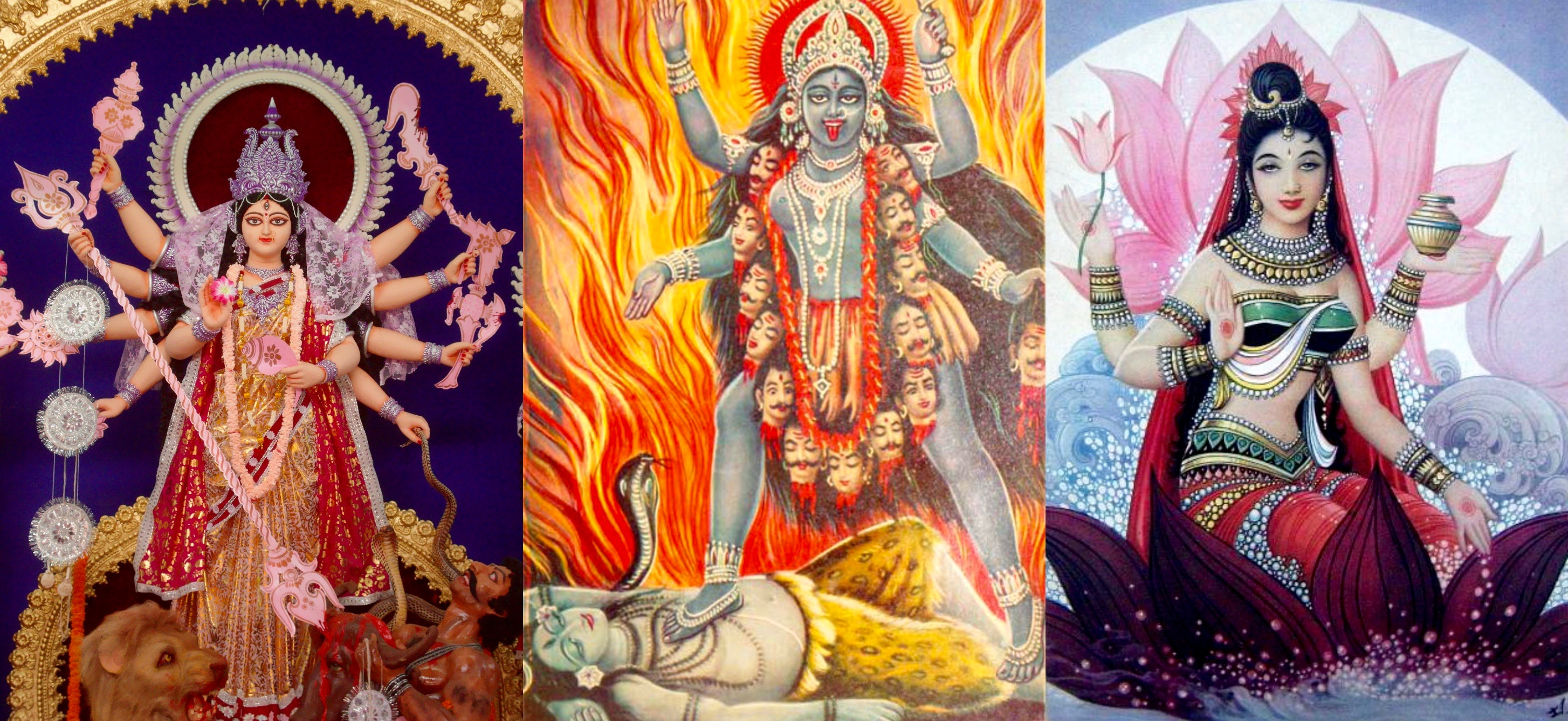 This is a derivative work on the following three images available on wikimedia under Creative Commons license: Durga Kali Sri Lakshmi